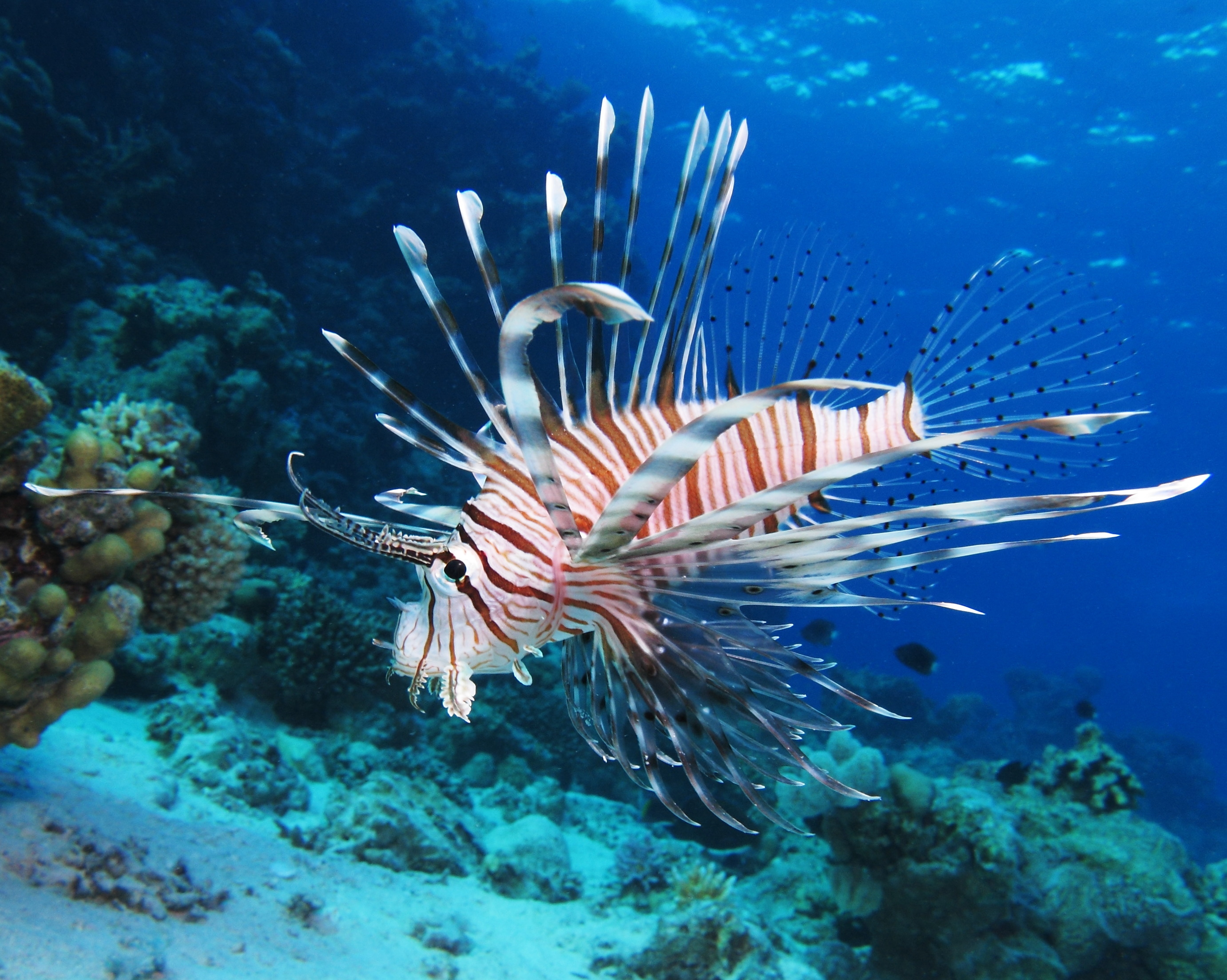 Common lionfish (Pterois miles) at Shaab El Erg reef in the Egyptian Red Sea (landscape crop)